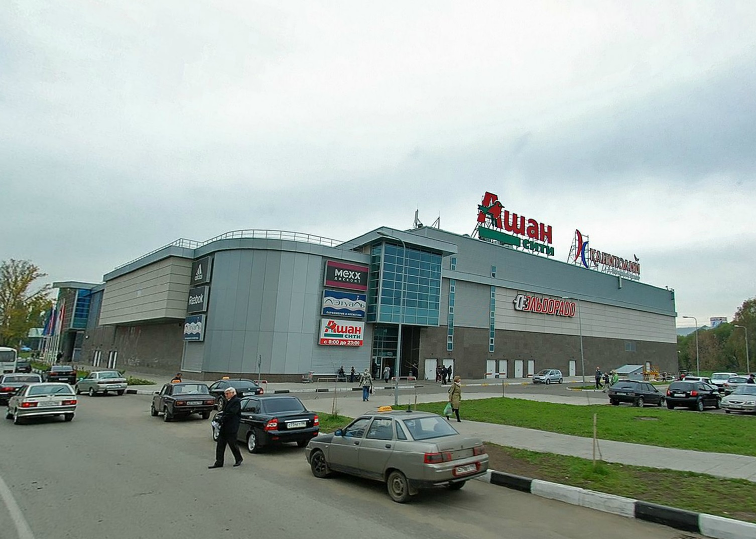 Auchan-city on Yakov Flier street in Orekhovo-Zuyevo, Russia